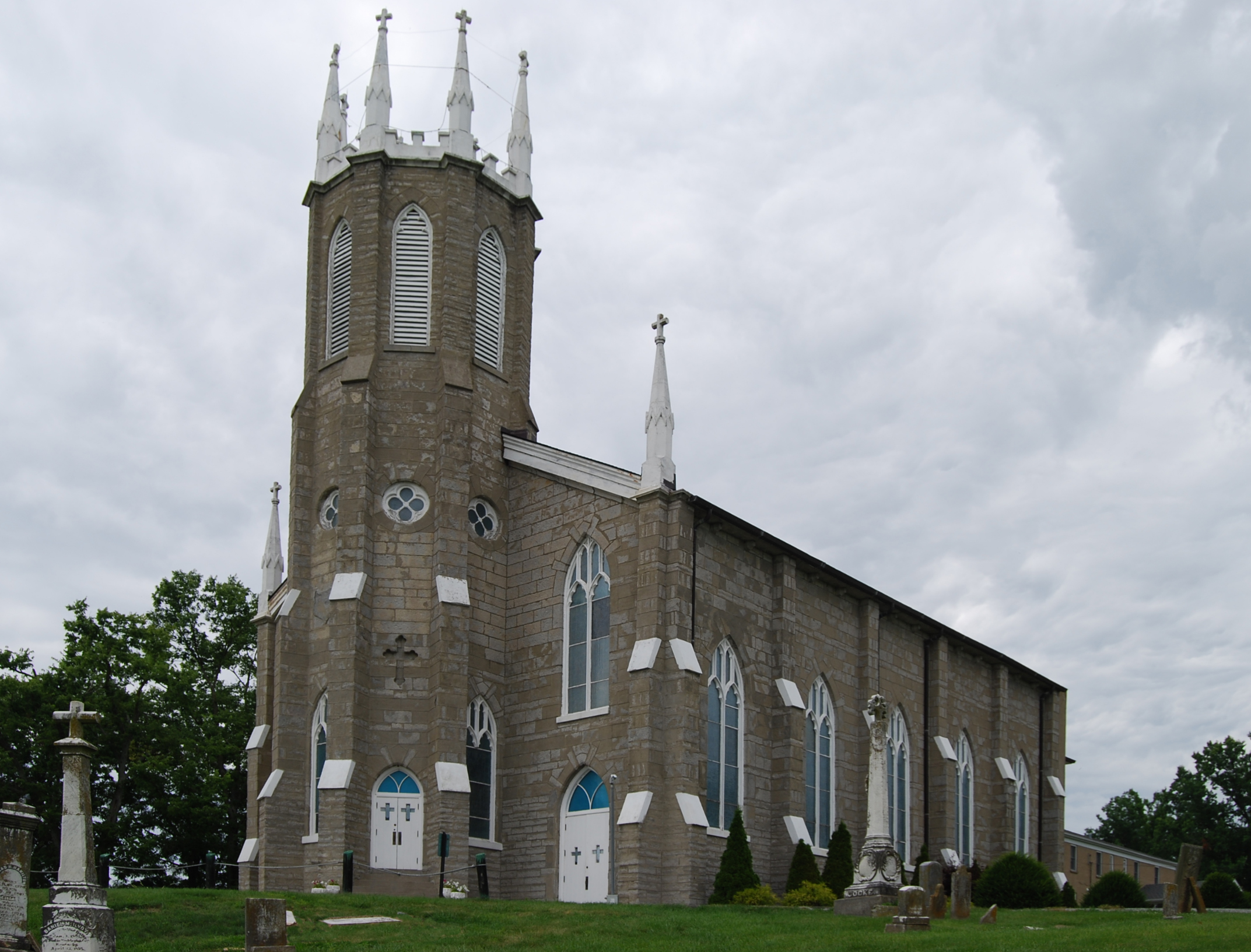 St. Rose Priory viewed from the front.